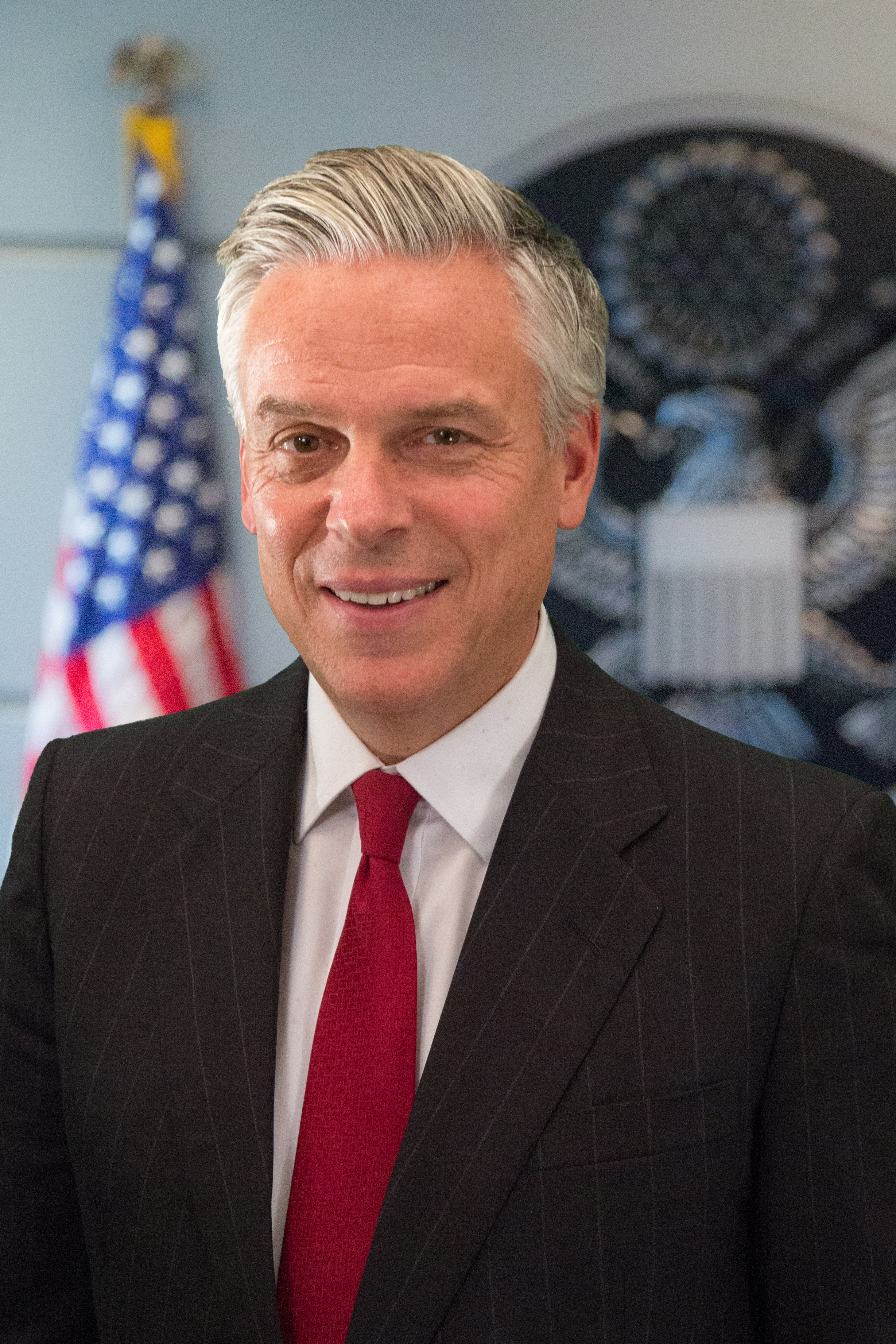 Official Portrait for Ambassador Jon M. Huntsman, Jr. for the Position of U.S. Ambassador to Russia